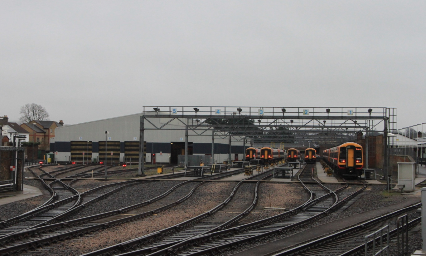 Salisbury Traincare Depot viewed from the west. This is home to South West Trains' fleet of class 158 and 159 diesel multiple units.